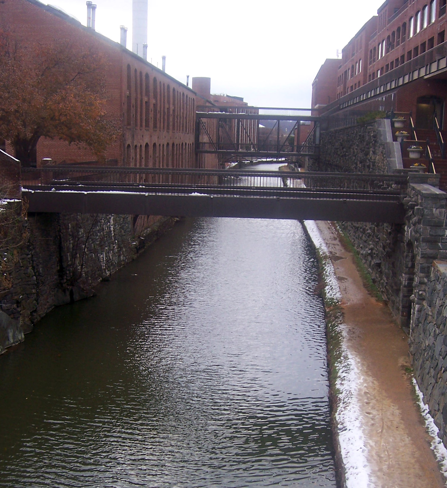 better version of previously uploaded image